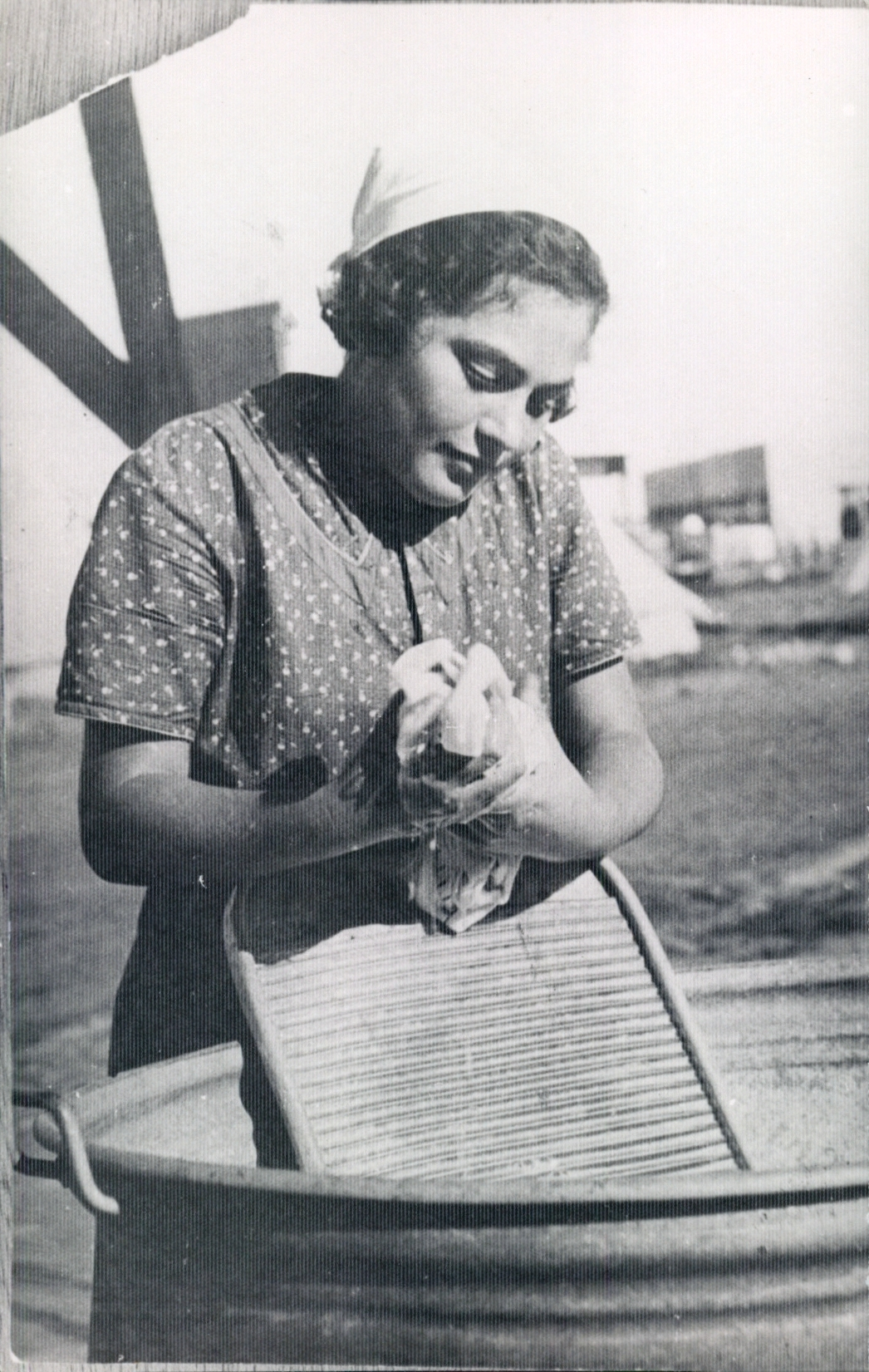 The Religious Kibbutz Movement, Settlements in Israel